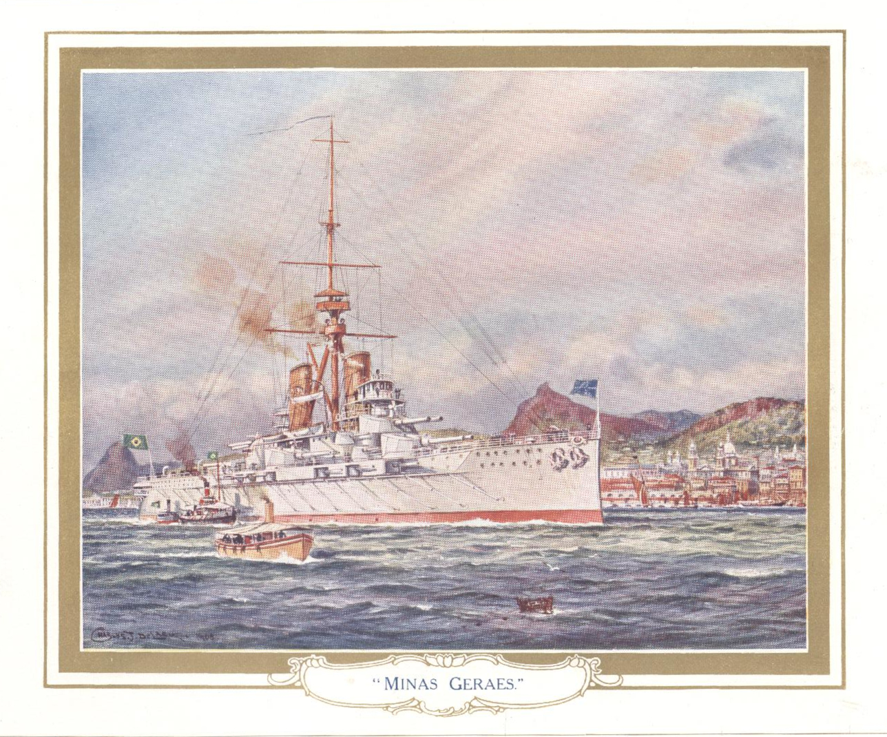 The Brazilean battleship Minas Geraes painted in 1908 by Charles de Lacy for the Tyneside shipbuilder Sir W G Armstrong Whitworth. Printed launch ephemera as available at launch and now held by Tyne & Wear Archives and Museums in the Archives as item 450/1/1.